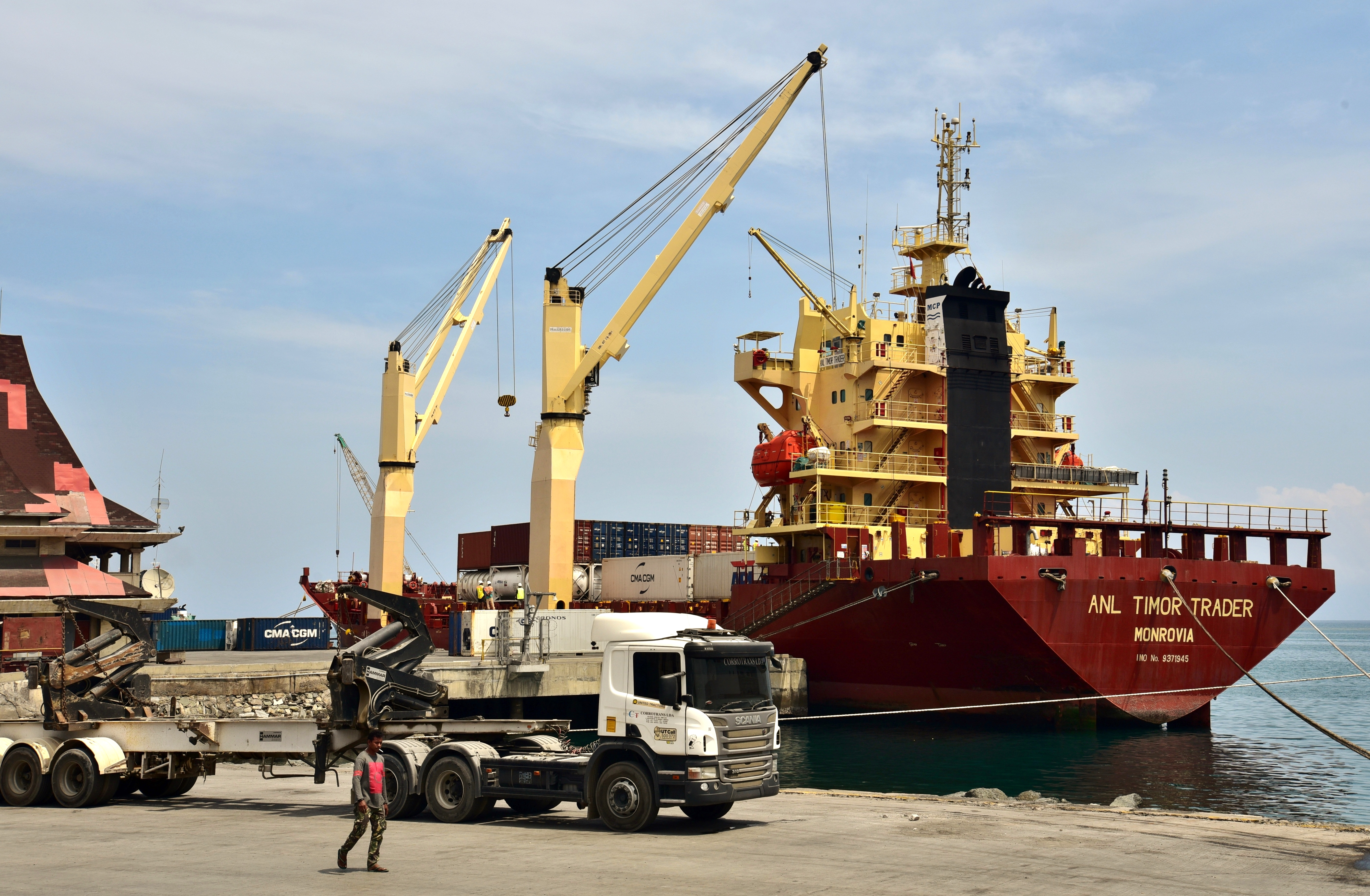 General cargo ship ANL Timor Trader berthed at Dili, East Timor